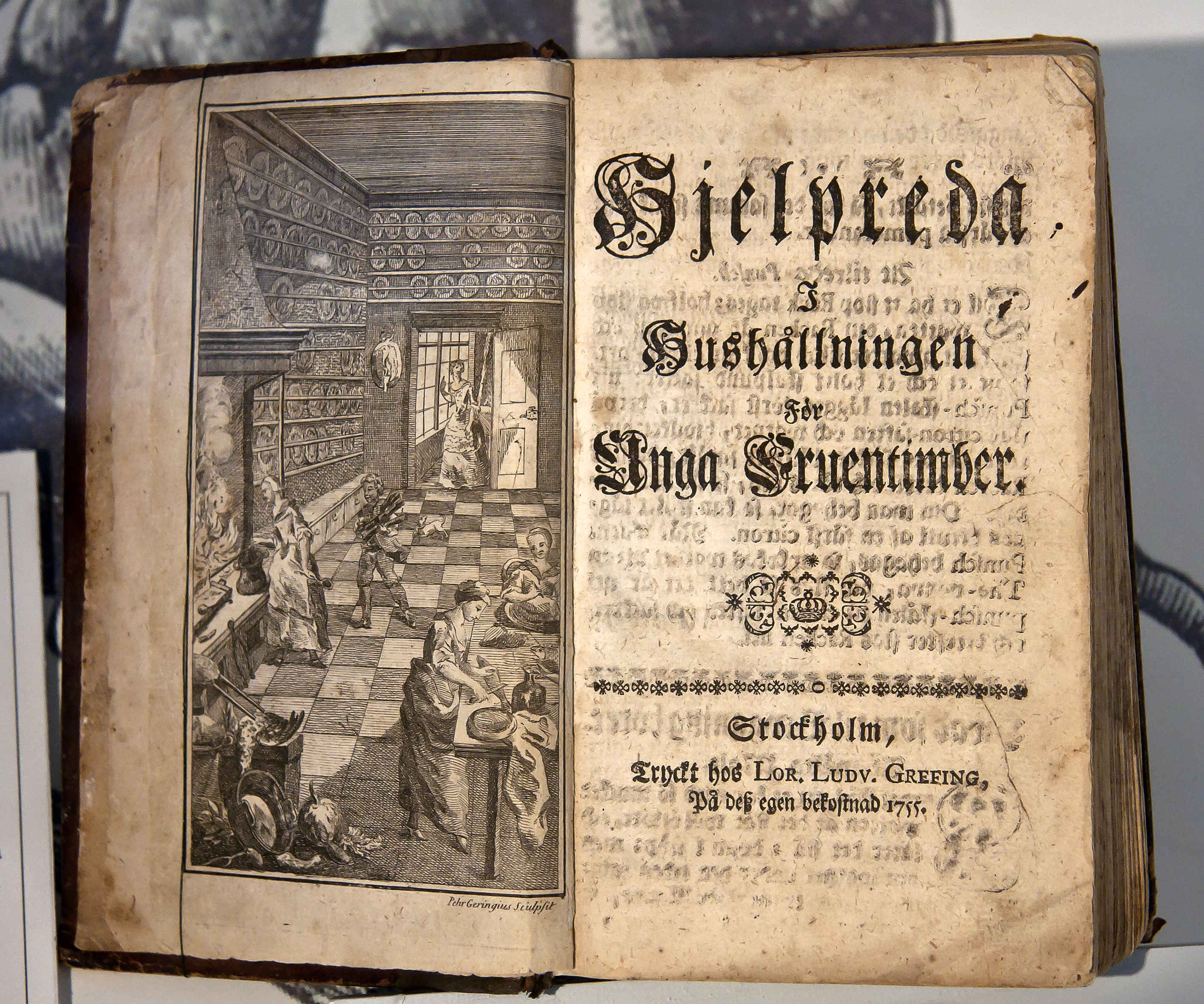 Hjelpreda I hushållningen för unga Fruentimber (Cajsa Wargs kokbok), the dominant Swedish cook book for generations after the publishing of this first edition in 1755. This copy is exhibeted in the Cajsa Warg house in the Wadköping open-air museum in Örebro, Sweden.